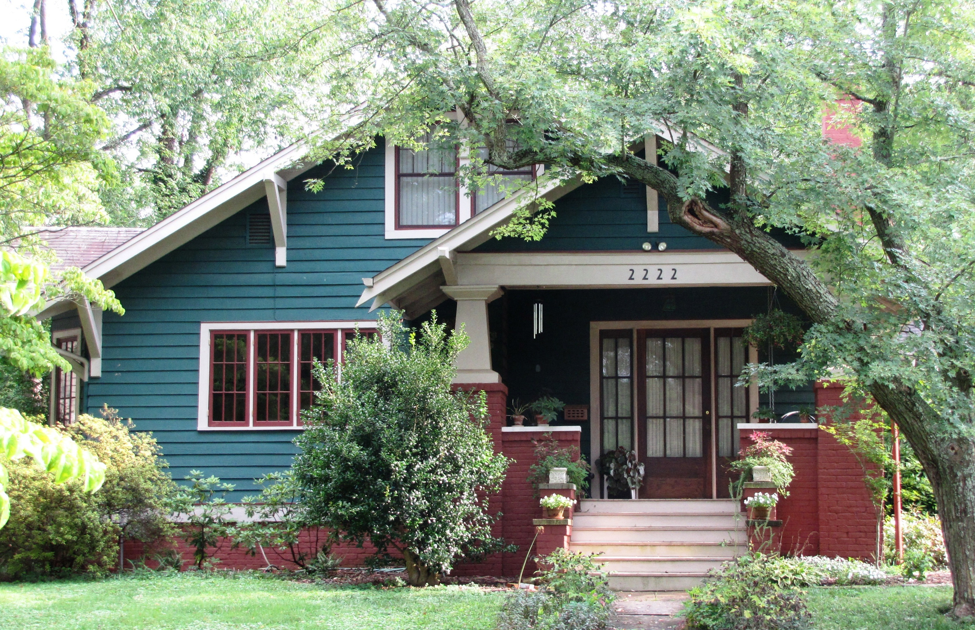 House at 2222 Island Home Boulevard in the Island Home Park community of Knoxville, Tennessee, USA. This was built circa 1917, and for several years was the home of Knoxville businessman William McCallie. The house is now listed as a contributing property within the NRHP-listed Island Home Park Historic District.